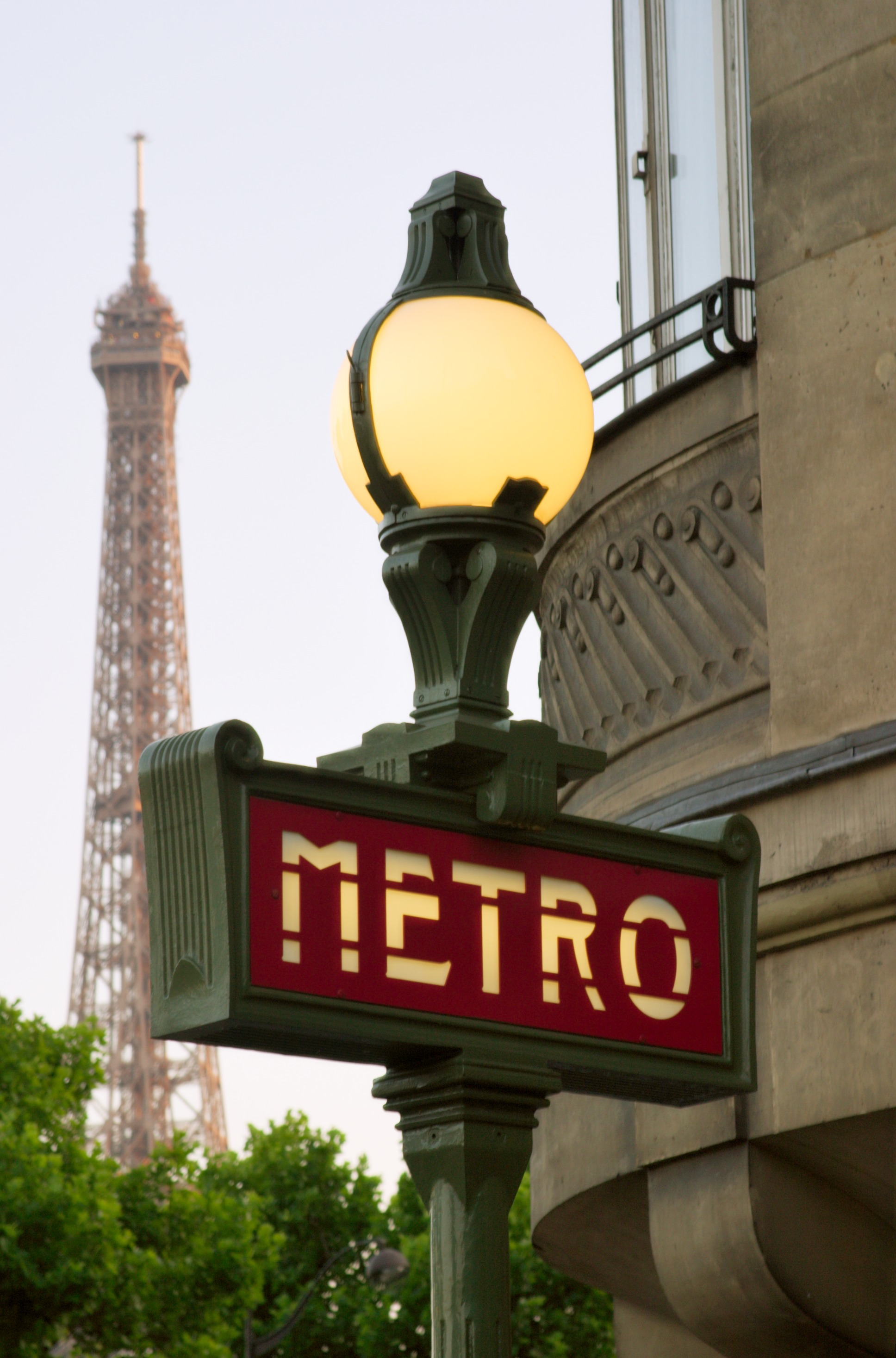 Metropolitain. An old underground sign in Paris.